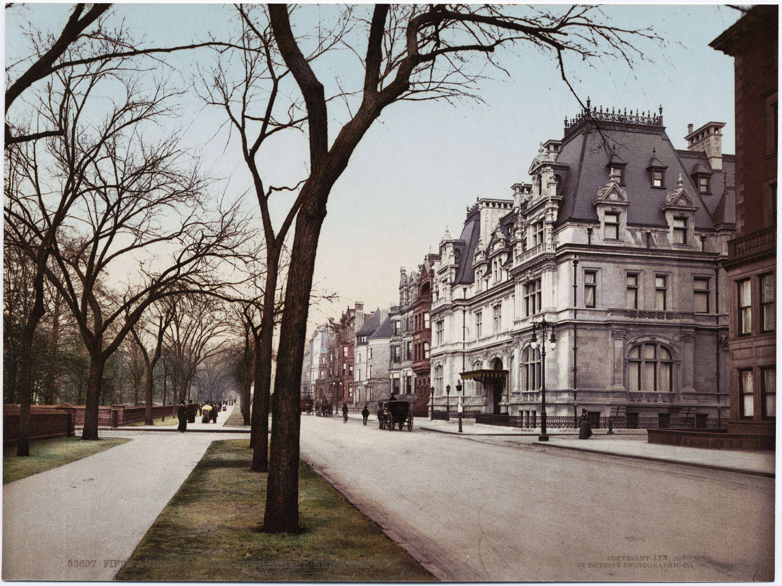 A photochrom postcard published by the Detroit Photographic Company.